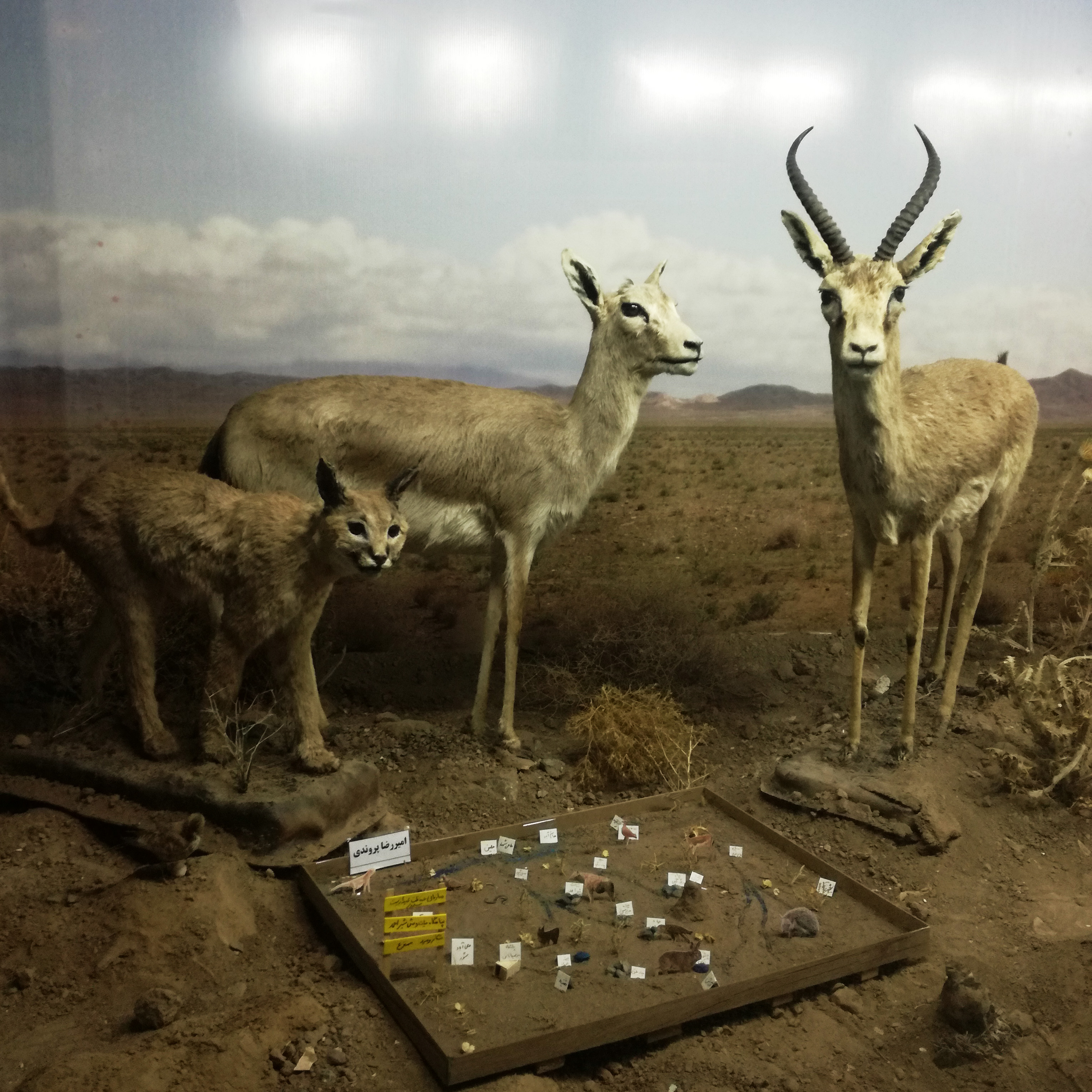 Taxidermy species in Sabzevar wildlife museum